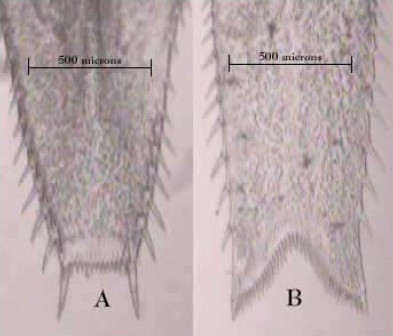 Telsons of a bloody-red mysid (Hemimysis) and a native opossum shrimp (Mysis).